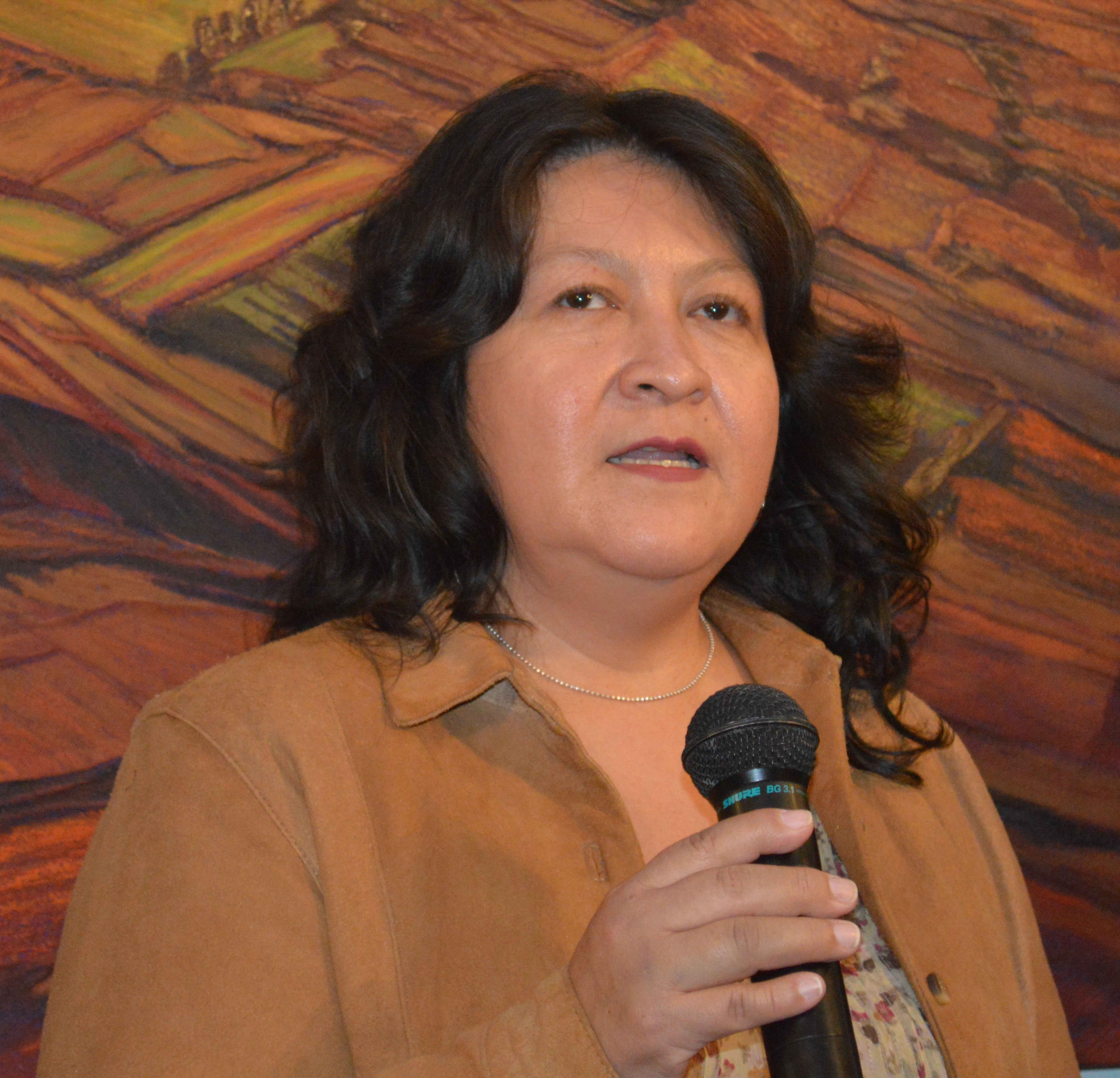 Angelica Carrasco at the opening of the exhibition of work by Angelica Carrasco, John McGee and Juan Manuel Salazar at the Salon de la Plastica Mexicana